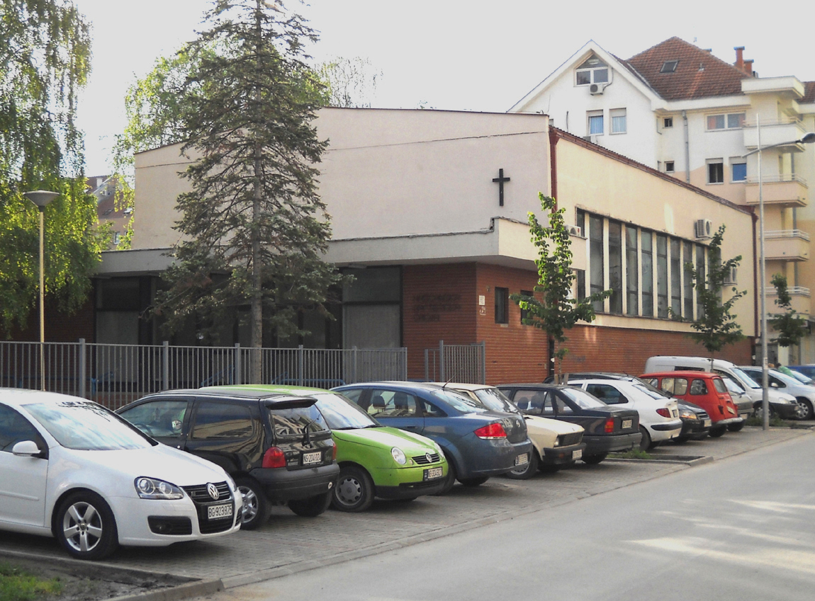 Christian Baptist Church in Novi Sad, built in 1967. Services are performed in Serbian language.